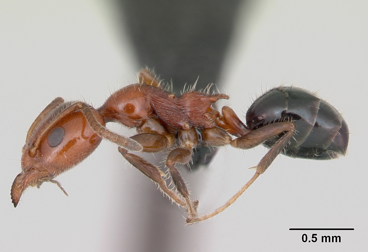 Profile view of ant Froggattella kirbii specimen casent0009944.